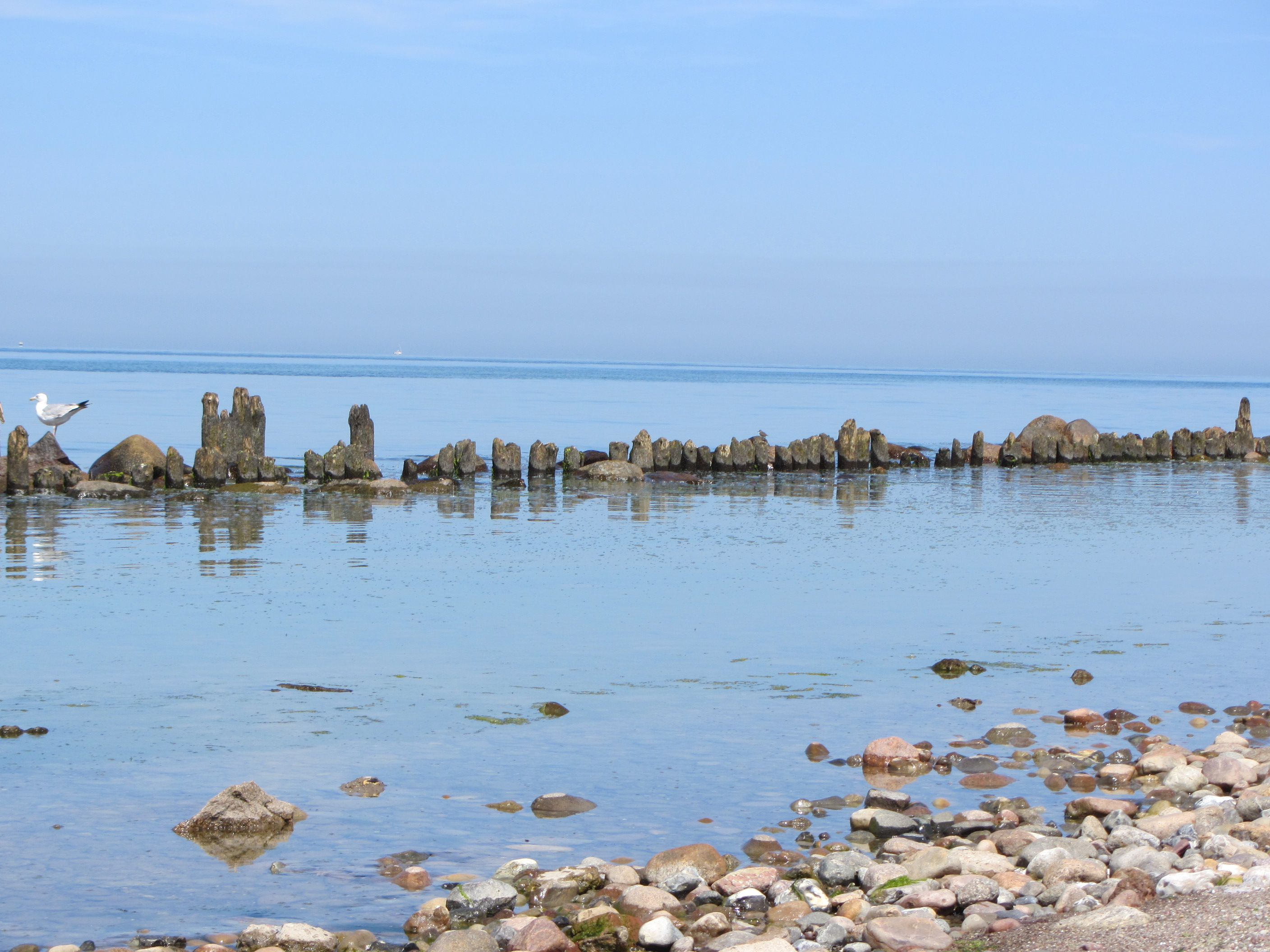 Nature reserve Riedensee - beach - north of Kägsdorf, district Rostock, Mecklenburg-Vorpommern, Germany